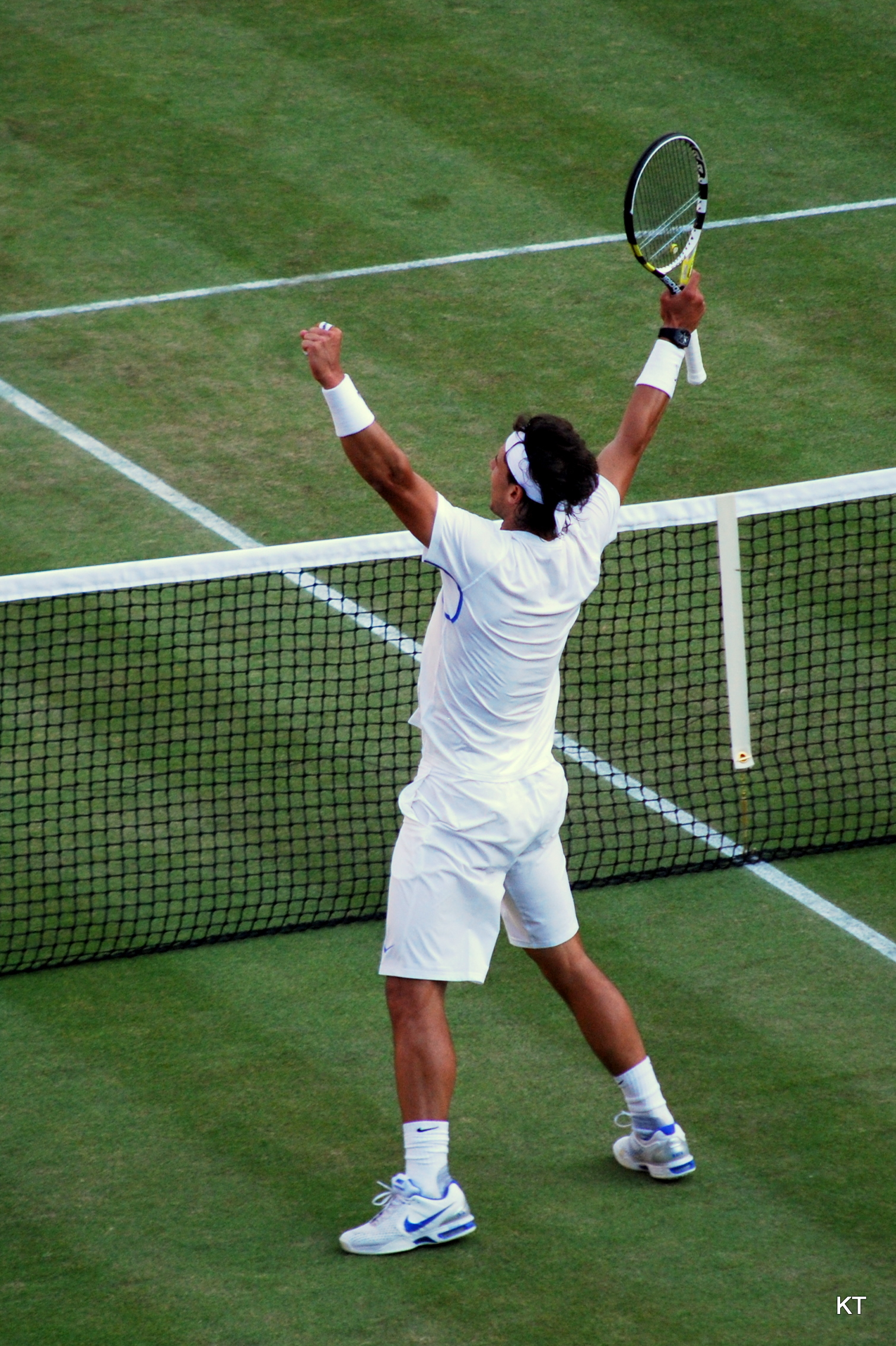 Rafael Nadal celebrates victory at the end of his quarter-final with Mardy Fish. Day 9 of Wimbledon 2011.